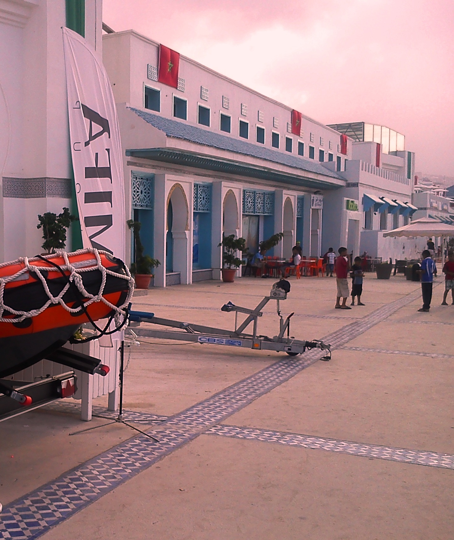 City of M'diq in Morocco